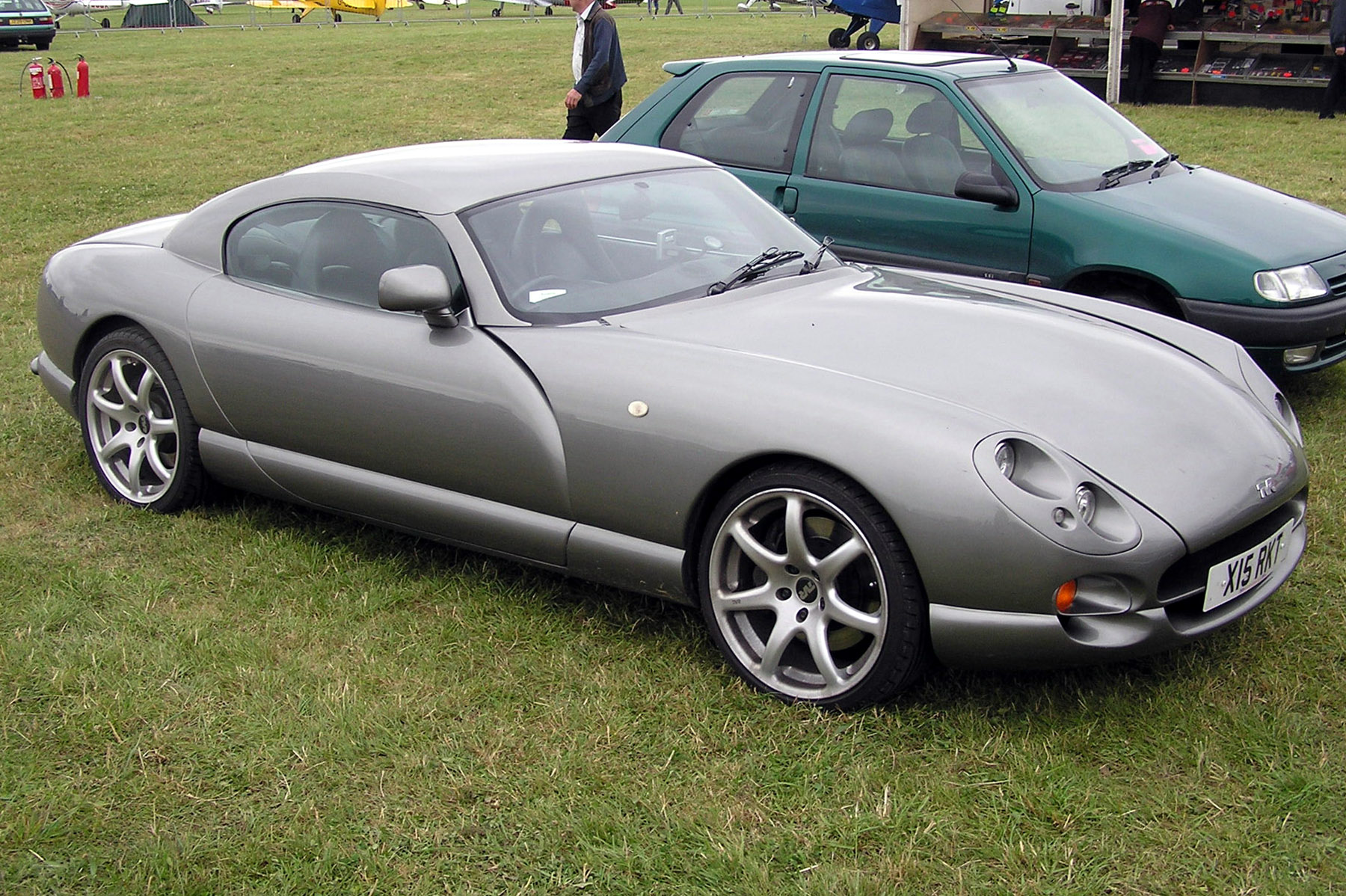 TVR Cerbera, seen at Kemble Airfield, Gloucestershire, England. Photographed by Adrian Pingstone in July 2005 and placed in the public domain.